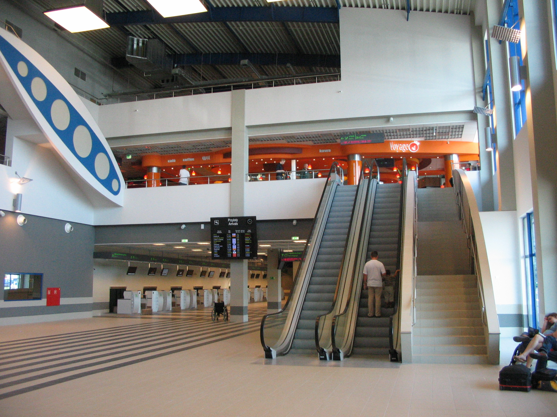 Katowice International Airport in Pyrzowice - terminal B - inside view